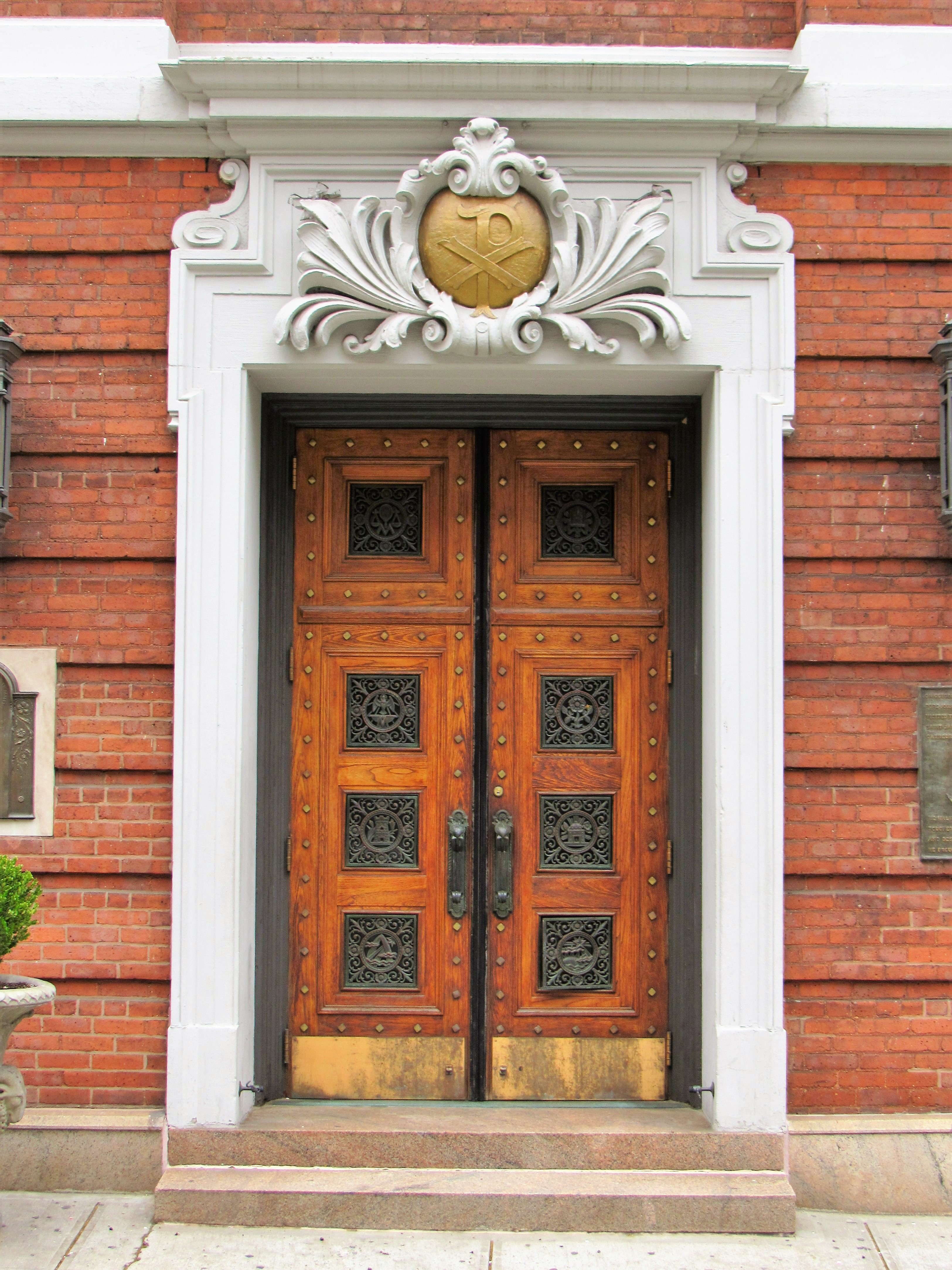 The main entrance into the Cathedral Basilica of St. James in Brooklyn, New York.